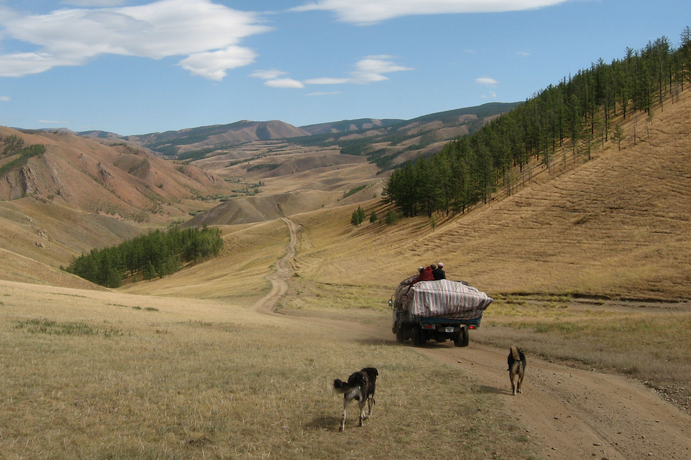 Mongolian nomads moving to autumn encampment, Khövsgöl Province, Bürentogtokh sum